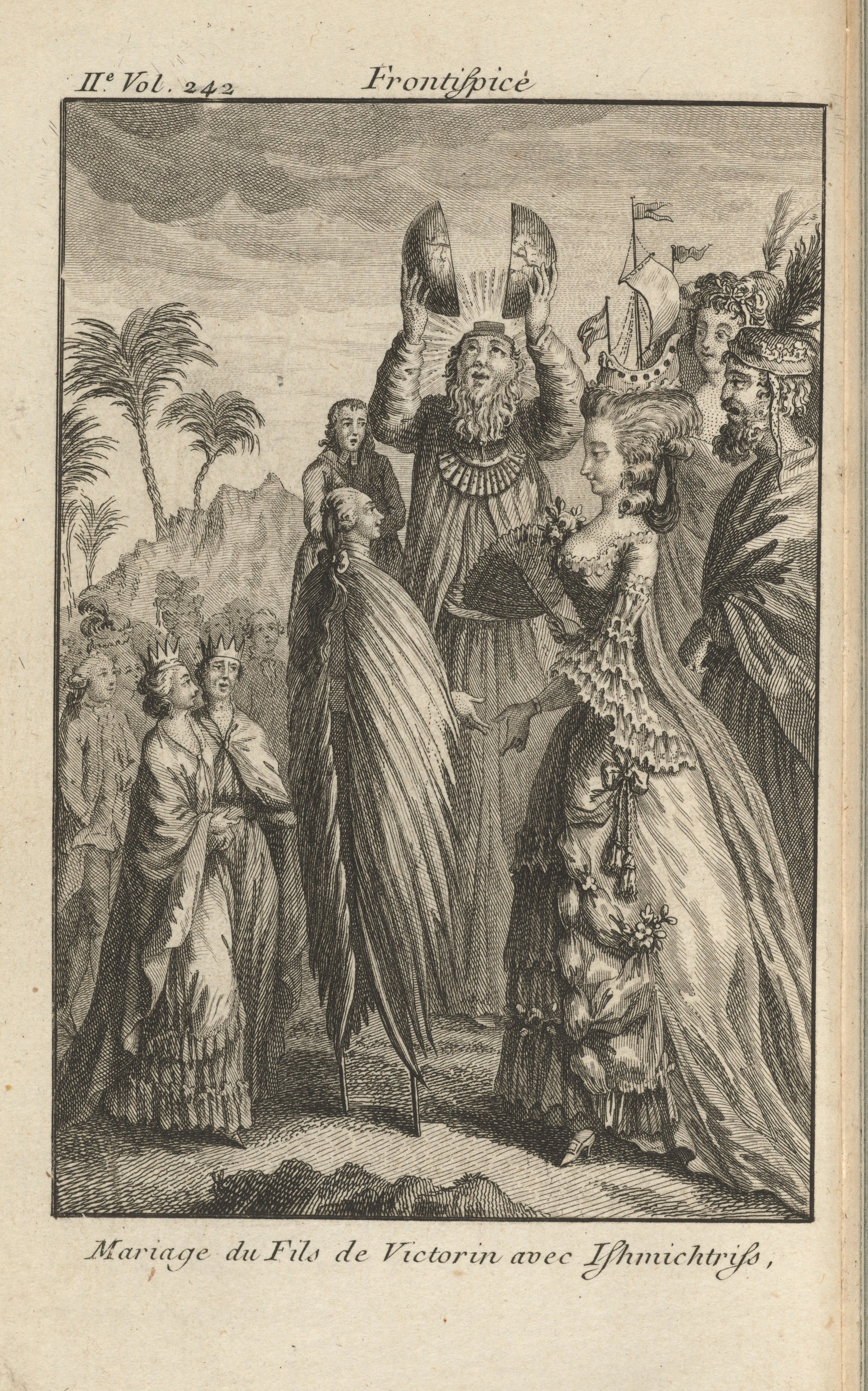 Illustration of "Mariage du Fils de Victorin avec Ishmichtriss" from La découverte australe par un homme-volant, 1781, by Restif de La Bretonne (1734-1806). *FC7.R3135.781d (A), Houghton Library, Harvard University